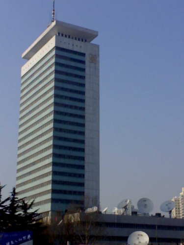 The photo of China Central TV Building